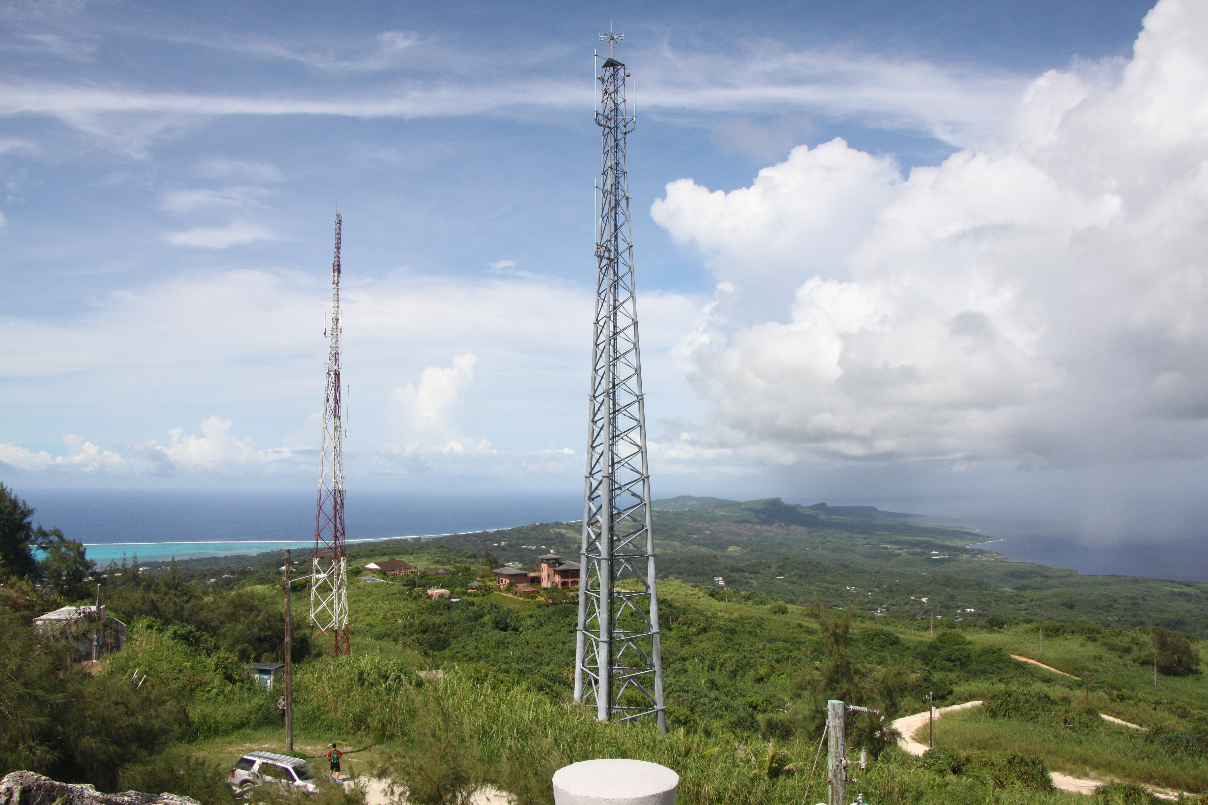 SAIPAN Mount Tapochau